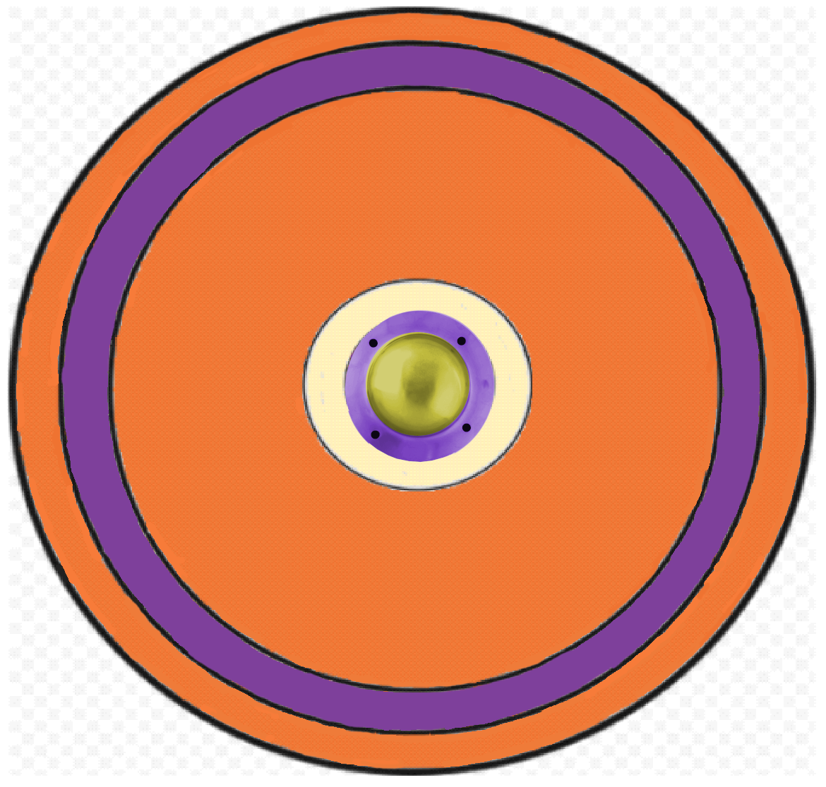 Shield pattern of the Bucinobantes, the unit is listed as auxilia palatina under the command of the Magister militum II in the Imperial Presence, Notitia Dignitatum, 5th century (Bodleian manuscript).